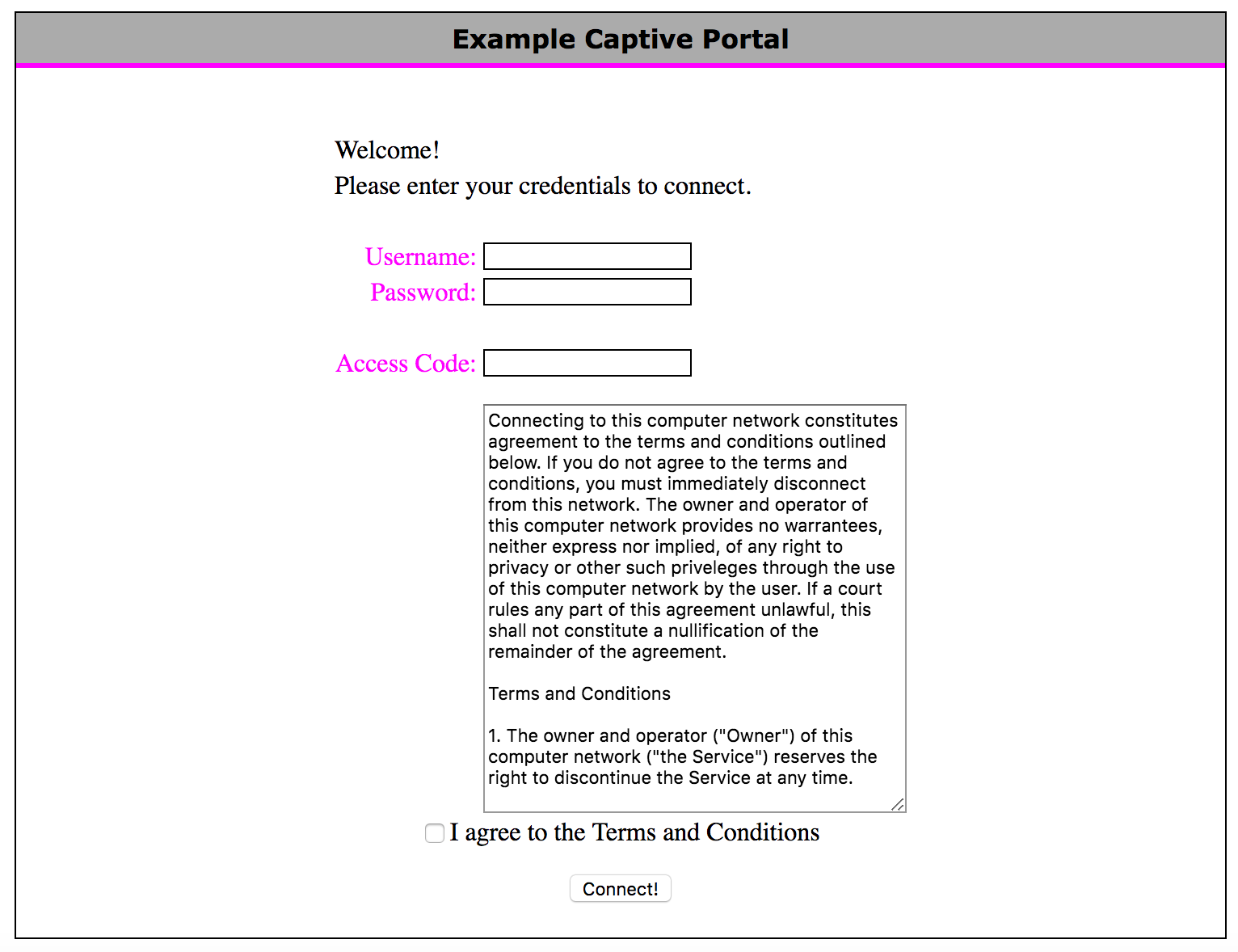 Screenshot: an example of a captive web portal used to log onto a restricted network. These pages are often presented to a user who must fulfill some requirement to connect.